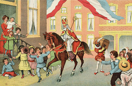 Saint Nicholas and Black Pete (1905). The arrival, festive ride, of Sinterklaas en Zwarte Piet. The rhyme says: the bisshop is arriving, the servant carries the chest (box) with money. llustration from: Jan Schenkman, St. Nikolaas en zijn knecht (Amsterdam, 1905). Picture with the rhyme 'Plechtige intocht van St. Nicolaas' (p. 4). Source: DBNL .